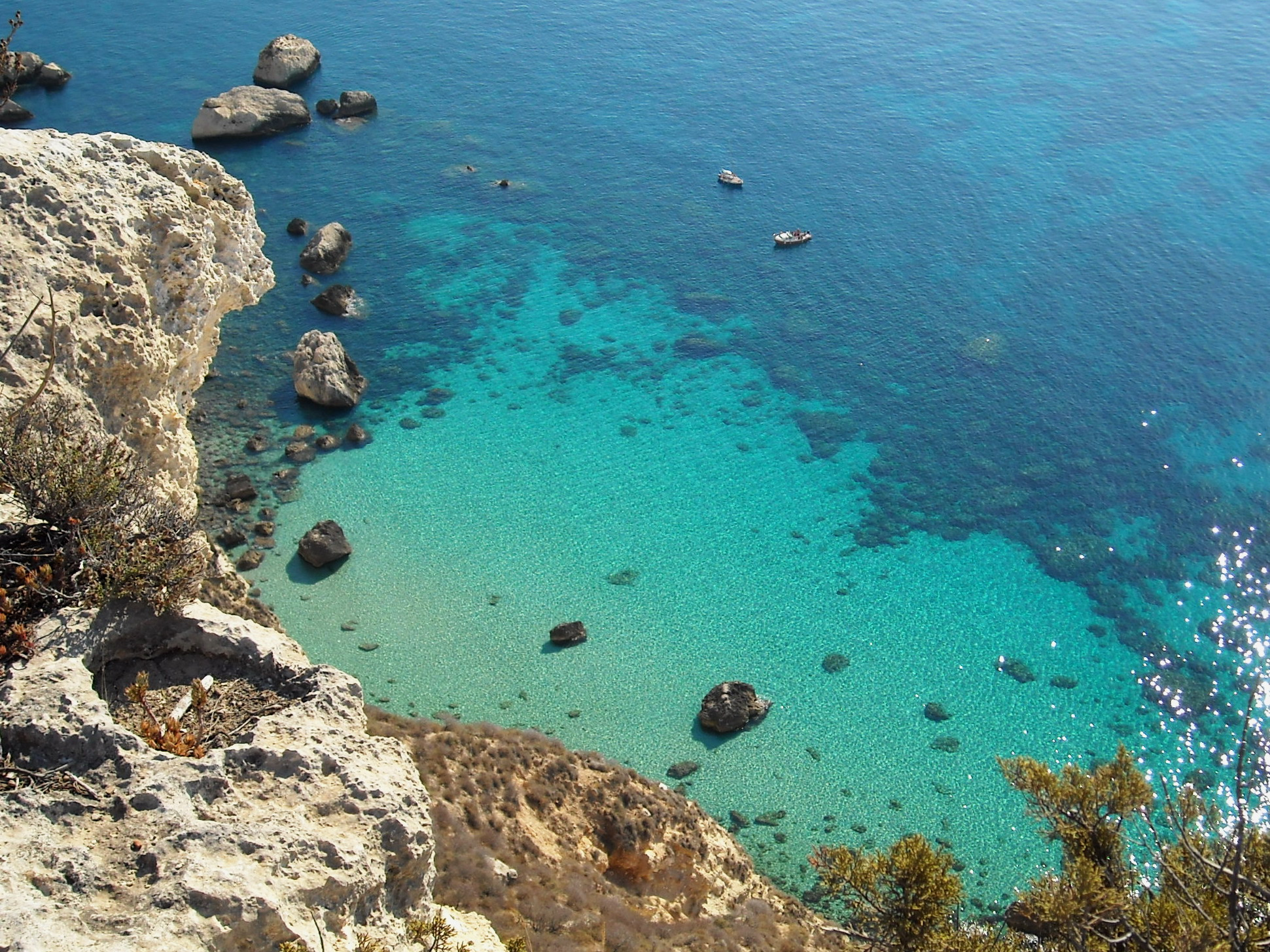 Cagliari , sea at Sella the Diavolo